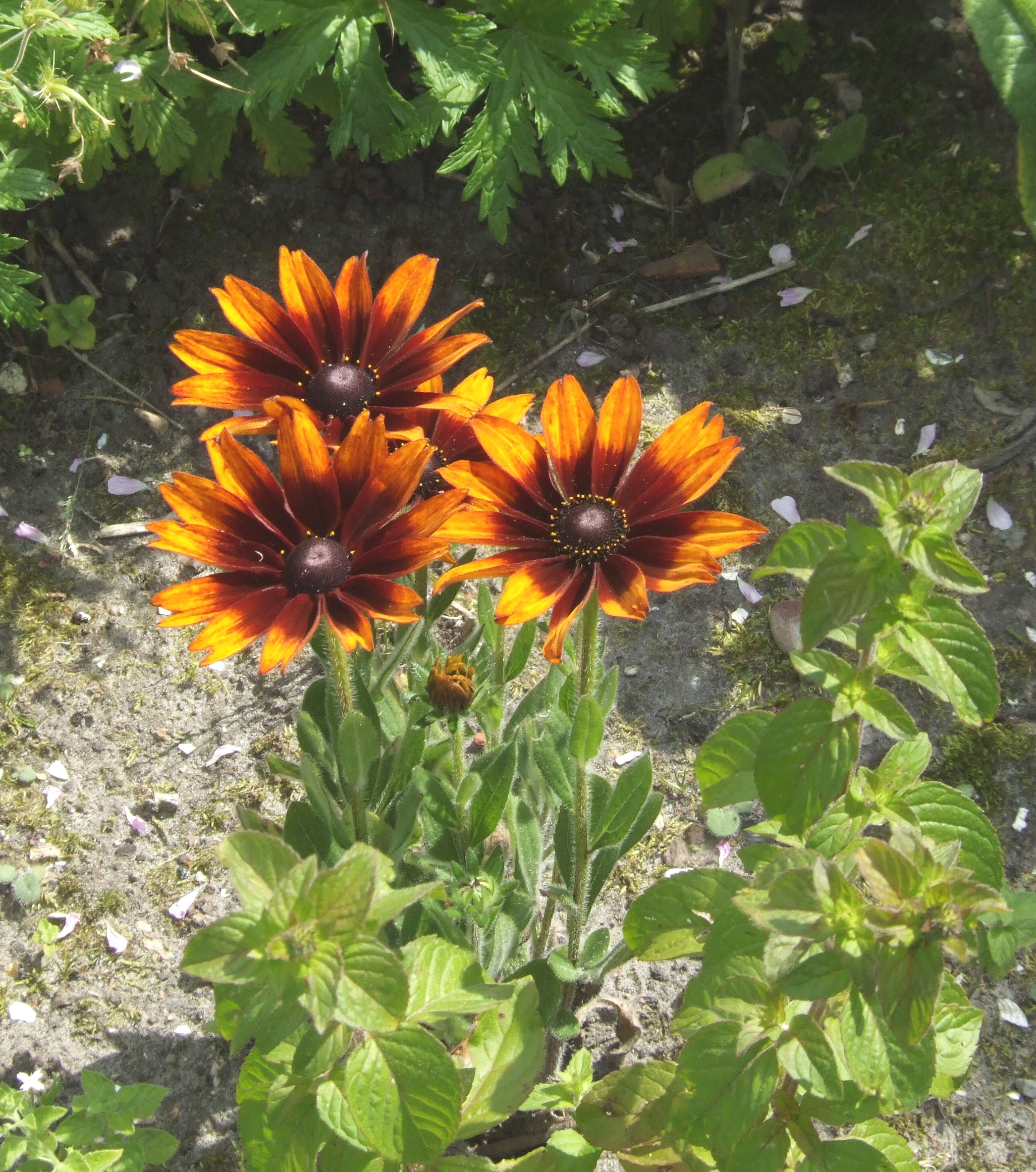 Blanket. (Gaillardia). Location the Alde Feanen.